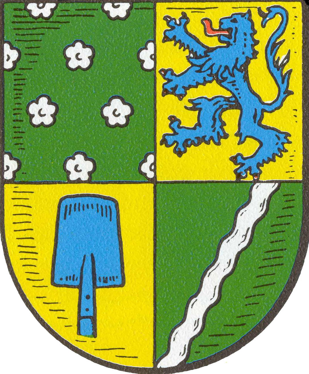 Coat of arms of Fliegenberg.